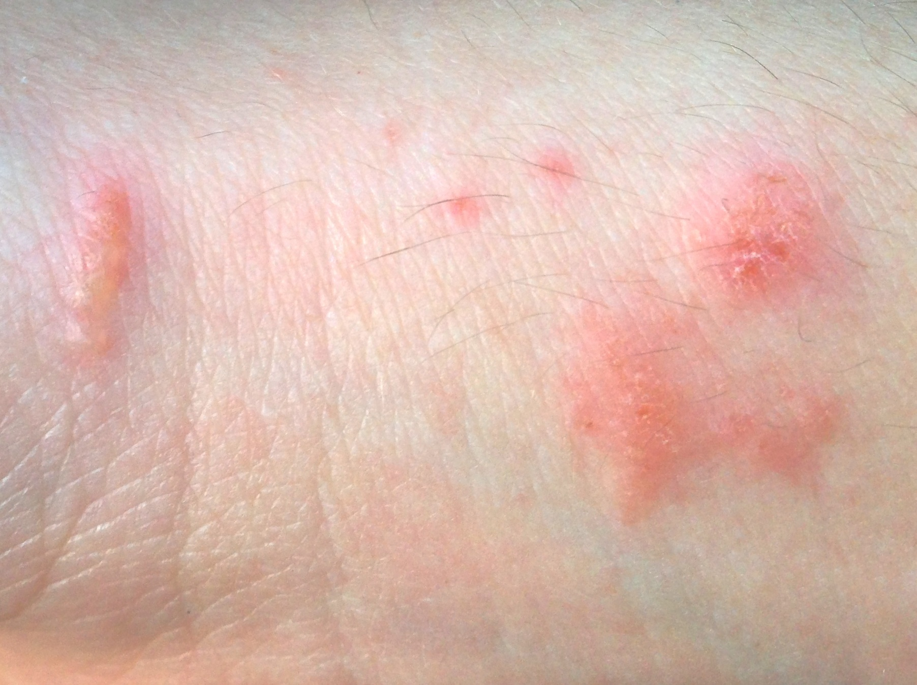 The effect of urushiol-induced contact dermatitis on someone’s wrist.